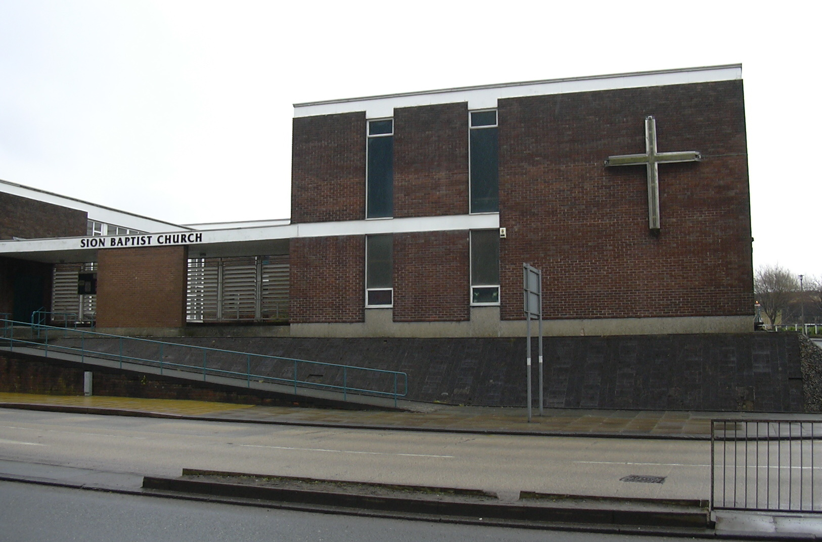 "Sion Baptist Church" Church Street, Burnley, BB11 2DW